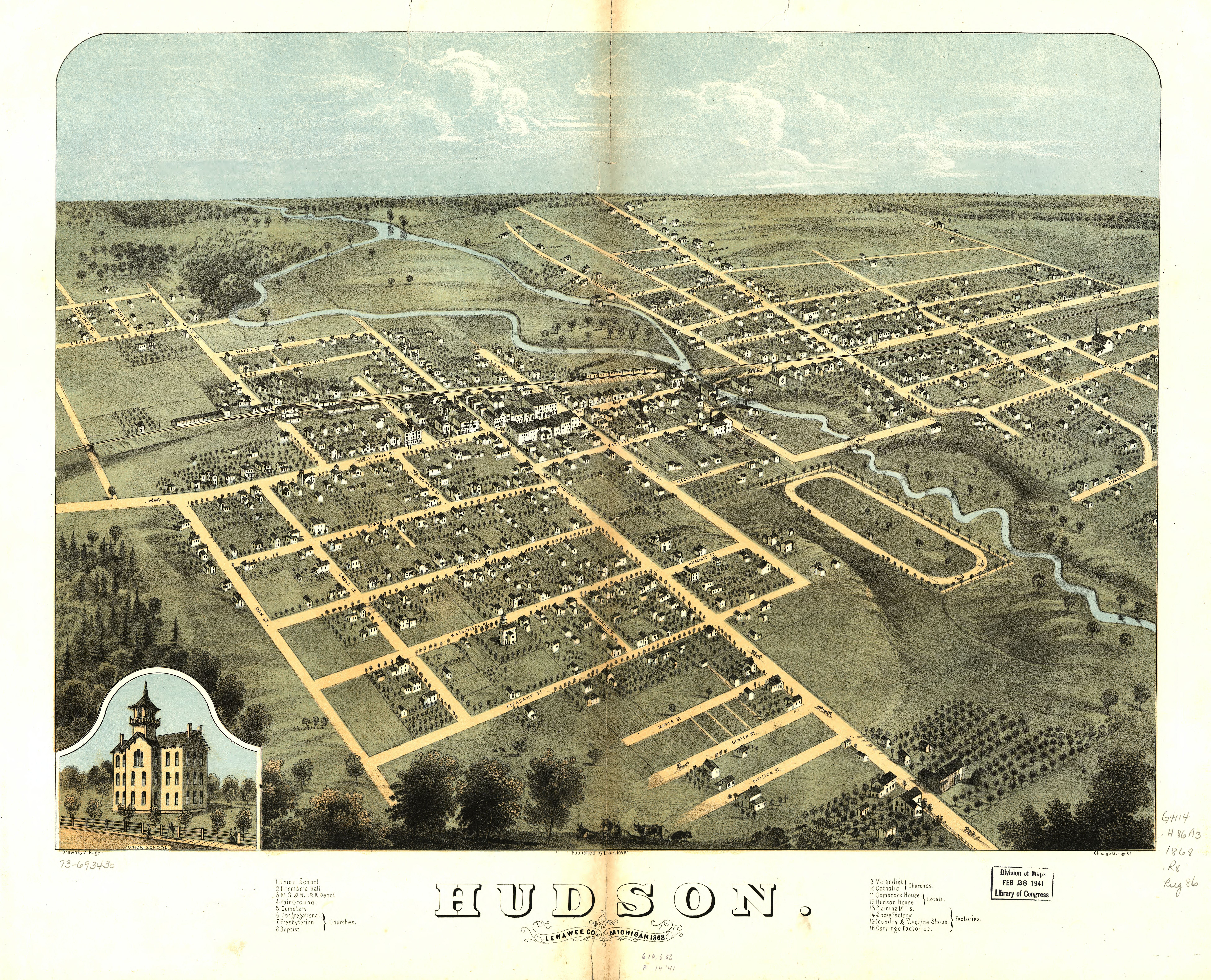 Perspective map not drawn to scale. Bird's-eye-view. LC Panoramic maps (2nd ed.), 352 Available also through the Library of Congress Web site as a raster image. Includes ill. and index to points of interest. Vault AACR2: 100; 651/1; 700/1; 710/2